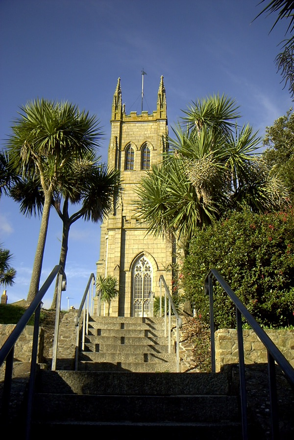 Church (St. Mary's) at Penzance. It was built in 1832-5.